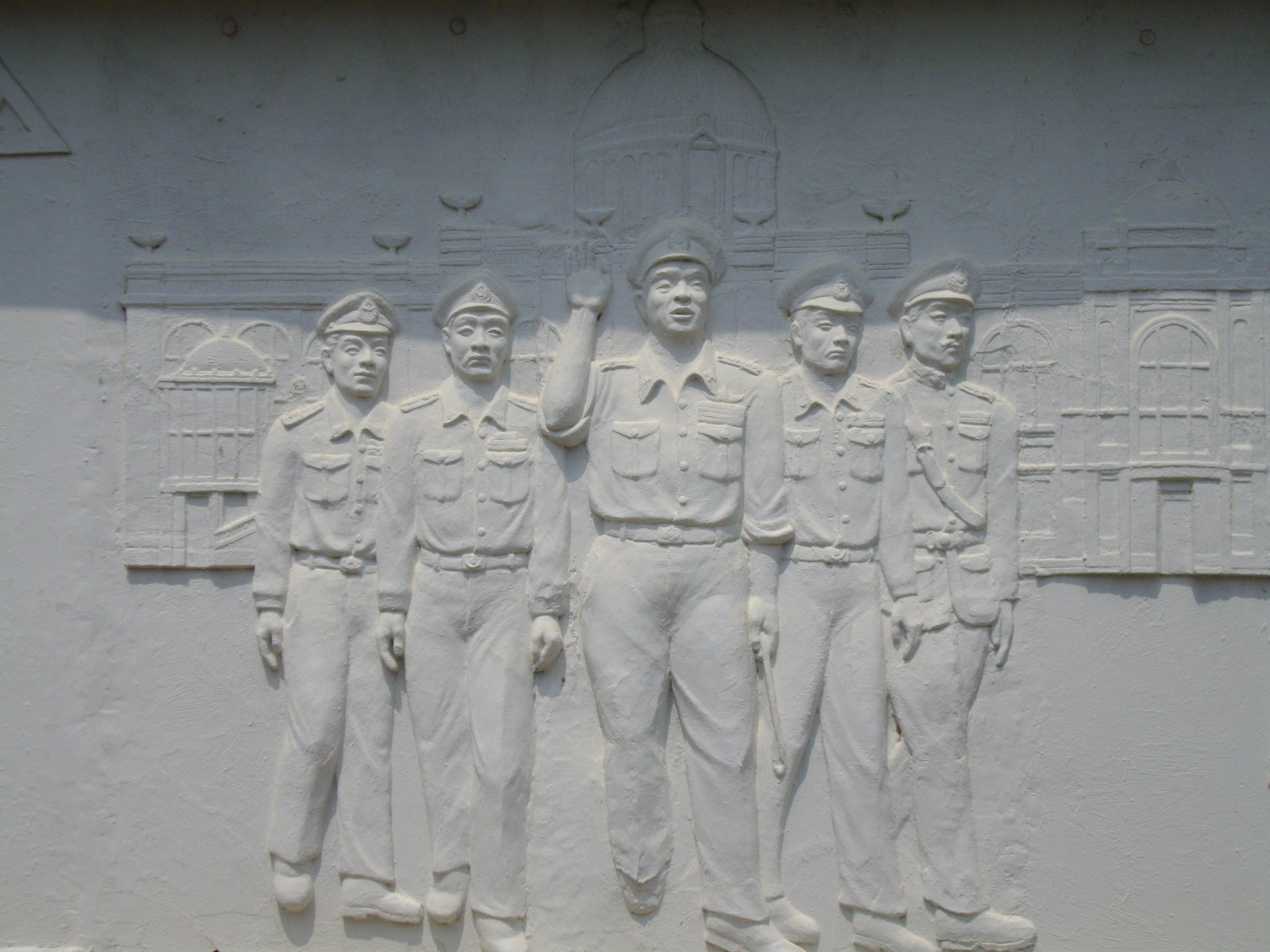 Relief of the life of Sarit Dhanarajata in his monument in Khon Kaen, Thailand, show the story of his coup d'etat in 1957.